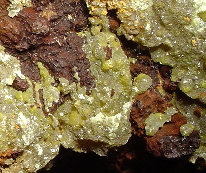 Iodargyrite Locality: Broken Hill, Yancowinna County, New South Wales, Australia (Locality at ) Size: 9.3 x 6.3 x 5.7 cm. Iodargyrite is one of the relatively rare silver iodine halides for which the renowned Broken Hill deposit is justifiably famous. Waxy, translucent, olive-green to yellow-green, iodargyrite crystals in clusters or as isolated crystals richly and attractively cover the sculptural, vuggy, gossan matrix. This is overall a very rich, large, and unusually attractive specimen. Classic, older, combination material from this world-class locality - it probably dates to the early 1900s to 1940s era here.